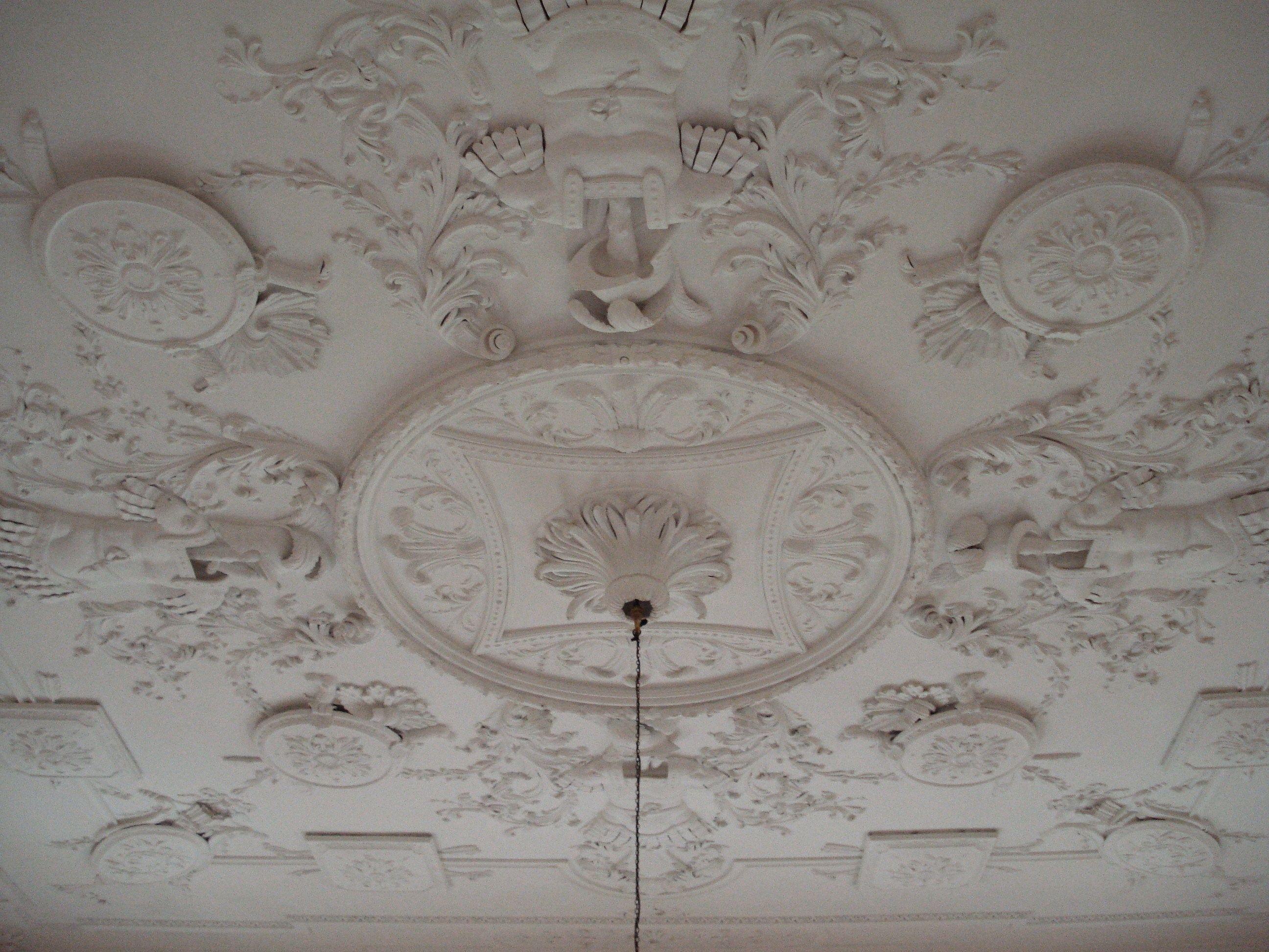 Platster work by Thomas Clayton in the Saloon